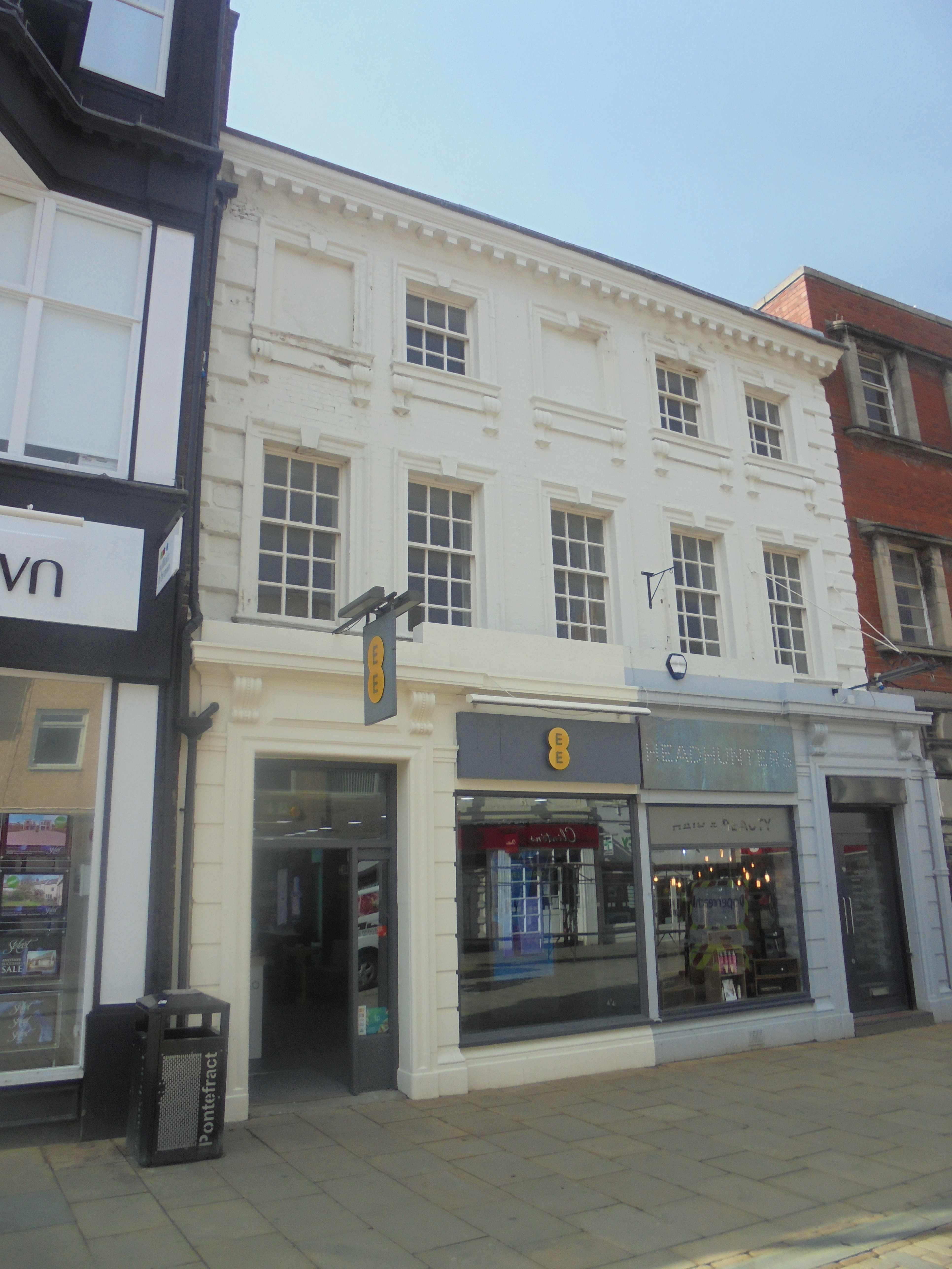 EE, Market Place, Pontefract, West Yorkshire. Taken on the afternoon of Thursday the 25th of April 2019.